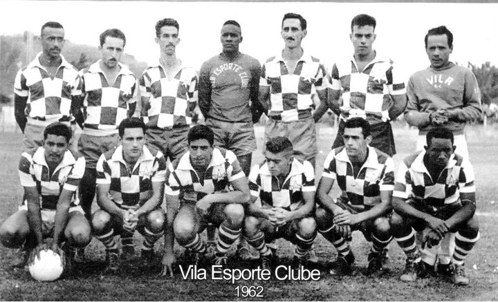 Vila Esporte Clube - 1962